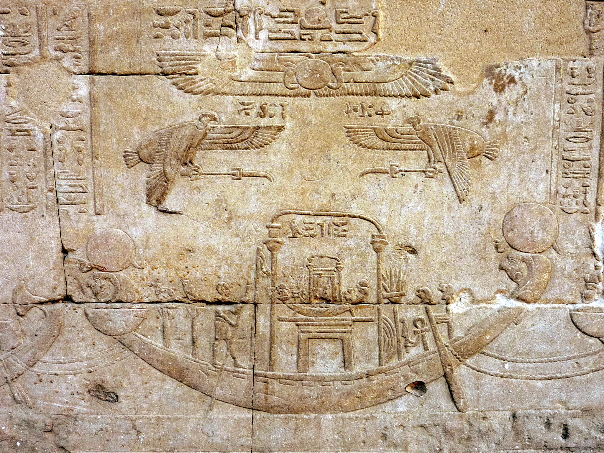 Great boat with the divine bark of Horus of Edfu - Wall relief in court, temple of Edfu, Egypt